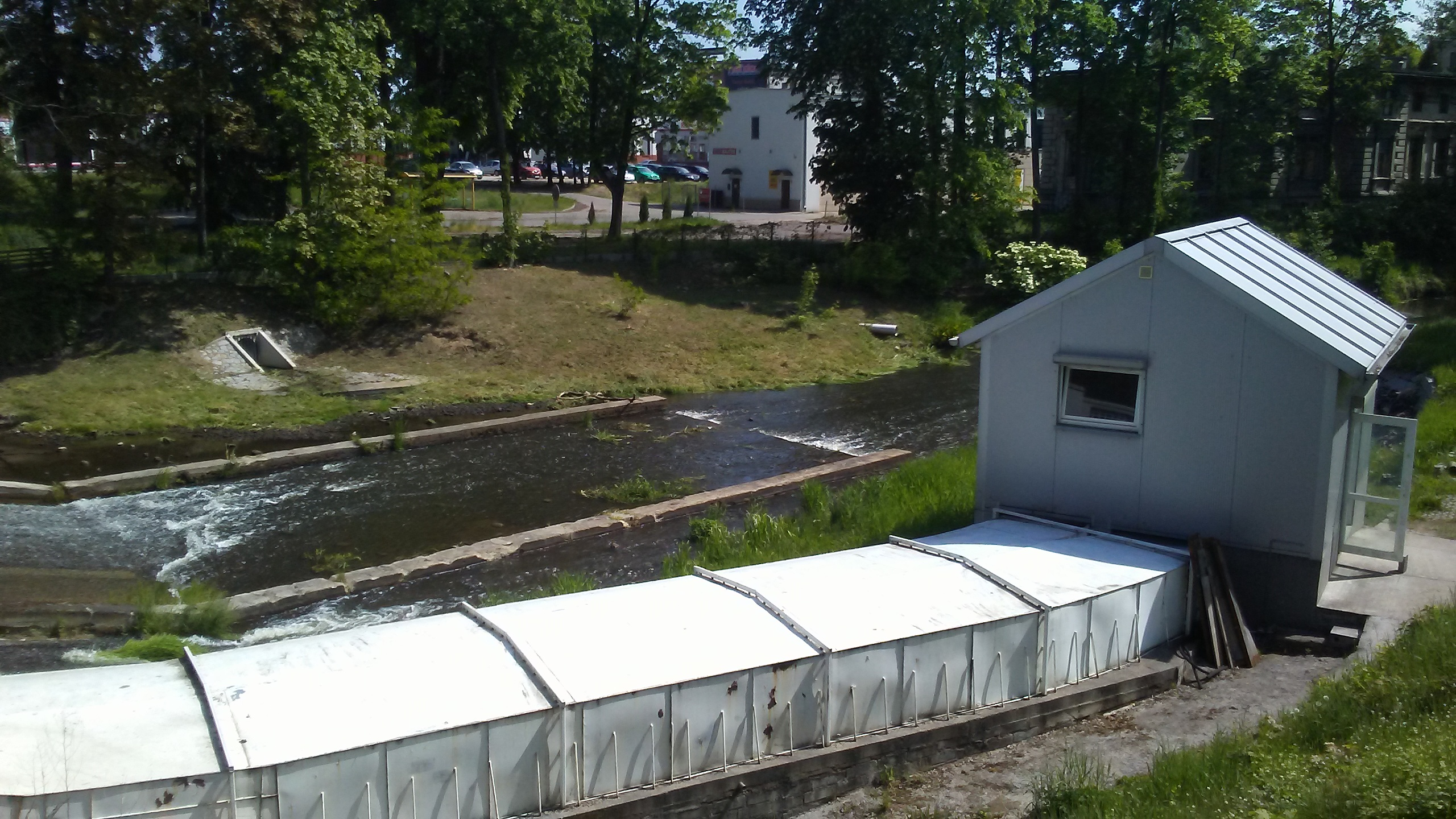 Water power plant, Wobórka River, Tomaszów Mazowiecki, Saint Anthony Street